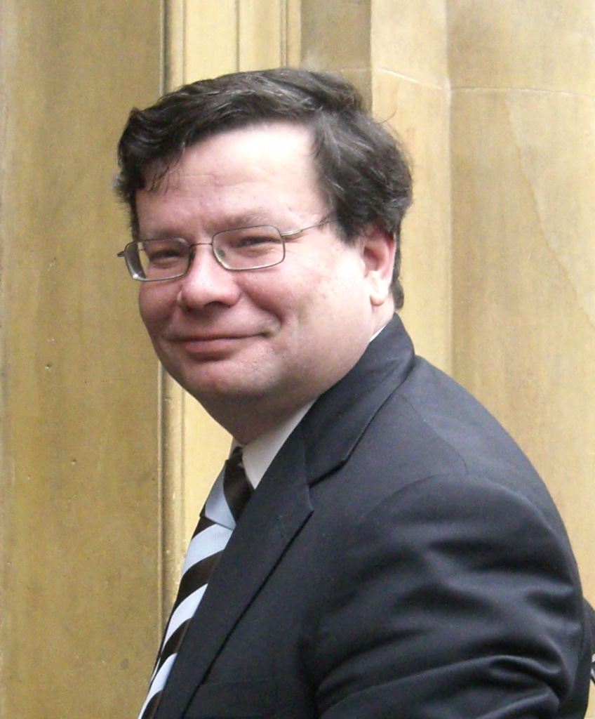 Minister Alexandr Vondra of the Czech government before session, the Czech Republic.